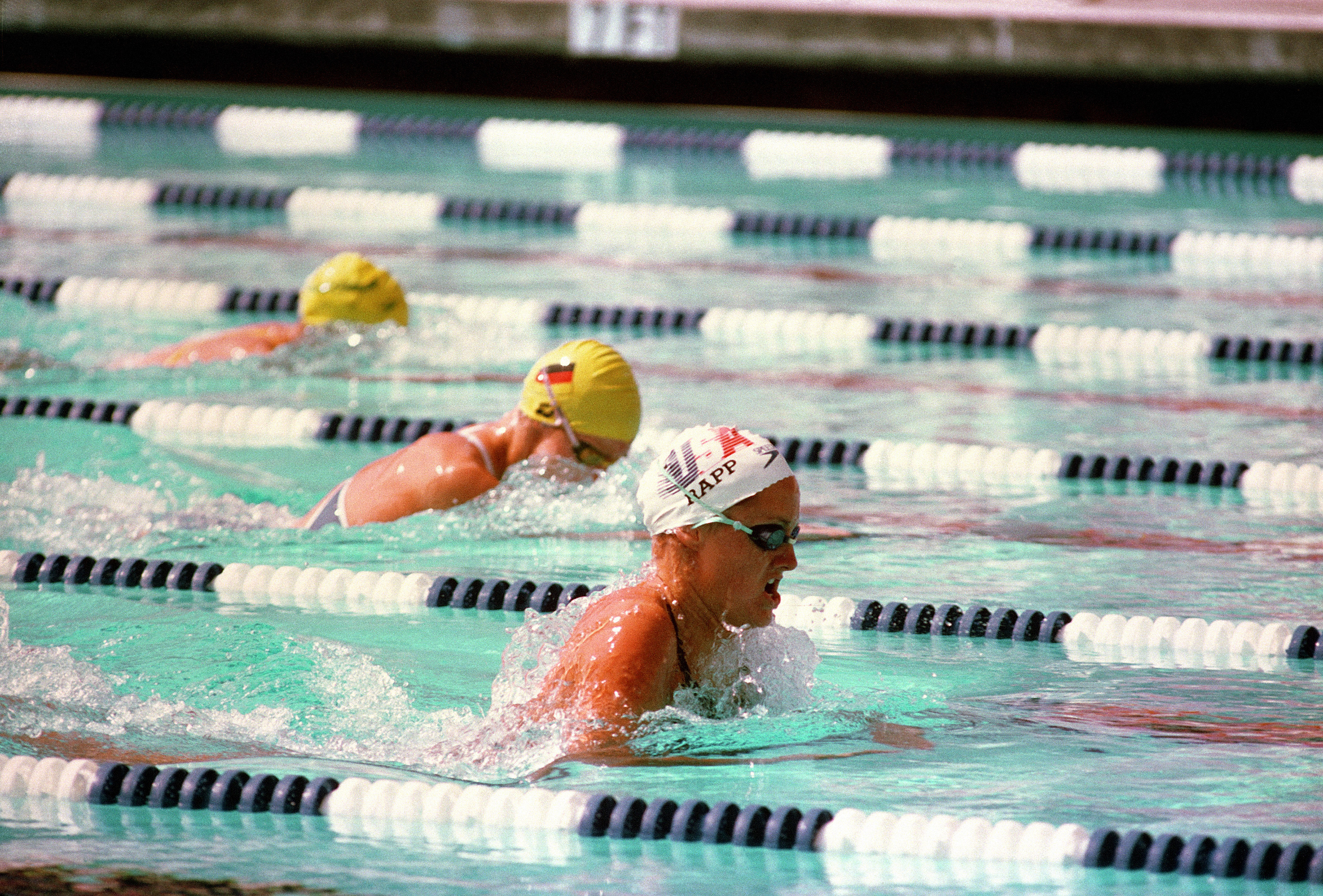 Susan Rapp competes in a swimming event at the 1984 Summer Olympics. Rapp won a silver medal for her performance in the 200 meter breaststroke.